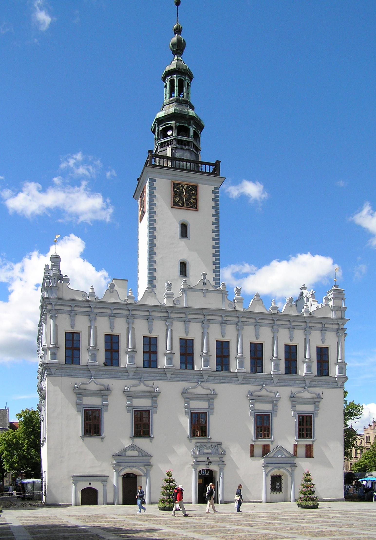 Chełmno, Town Hall